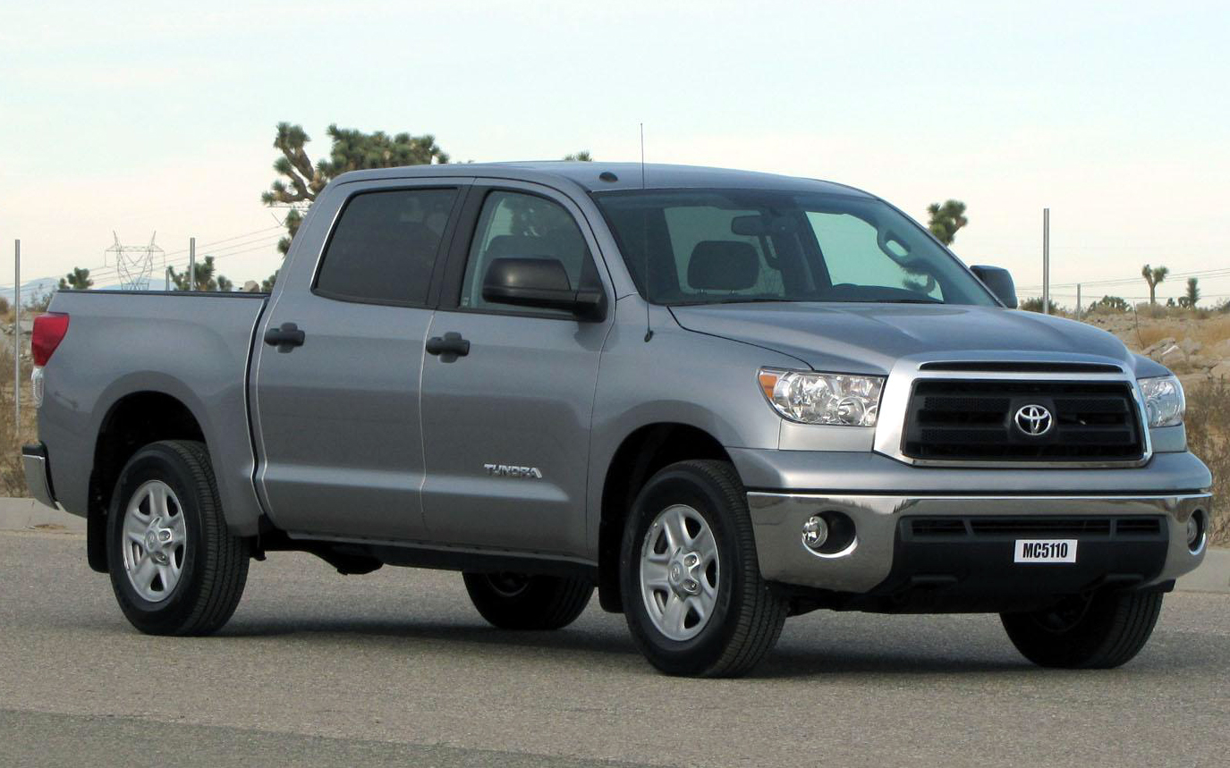 2012 Toyota Tundra Crewmax photographed in USA.